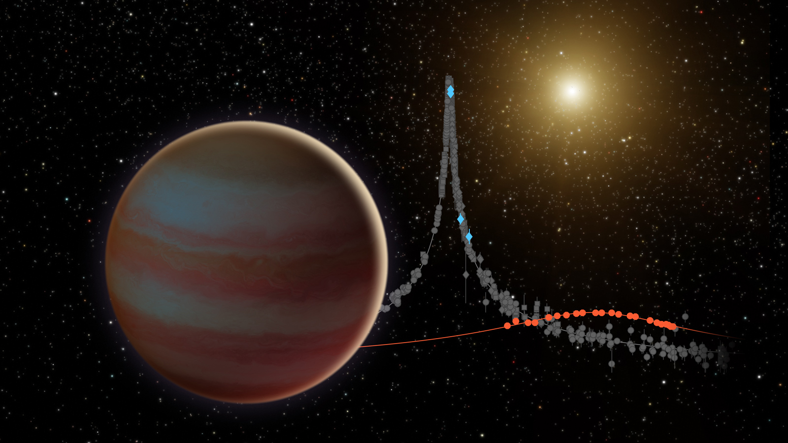 This illustration depicts a newly discovered brown dwarf, an object that weighs in somewhere between our solar system's most massive planet (Jupiter) and the least-massive-known star. This brown dwarf, dubbed OGLE-2015-BLG-1319, interests astronomers because it may fall in the "desert" of brown dwarfs. Scientists have found that, for stars roughly the mass of our sun, less than 1 percent have a brown dwarf orbiting within 3 AU (1 AU is the distance between Earth and the sun). This brown dwarf was discovered when it and its star passed between Earth and a much more distant star in our galaxy. This created a microlensing event, where the gravity of the system amplified the light of the background star over the course of several weeks. This microlensing was observed by ground-based telescopes looking for these uncommon events, and was the first to be seen by two space-based telescopes: NASA's Spitzer and Swift missions. The background data plot (see Figure 1) shows how the star's brightness evolved over time. The ground-based data is shown in grey, Swift with blue diamonds, and Spitzer with red circles. NASA's Jet Propulsion Laboratory manages the Spitzer Space Telescope mission for NASA's Science Mission Directorate, Washington. Science operations are conducted at the Spitzer Science Center at Caltech in Pasadena, California. Spacecraft operations are based at Lockheed Martin Space Systems Company, Littleton, Colorado. Data are archived at the Infrared Science Archive housed at the Infrared Processing and Analysis Center at Caltech. NASA's Swift satellite was launched in November 2004 and is managed by NASA's Goddard Space Flight Center in Greenbelt, Maryland. For more information about the Spitzer mission, visit and